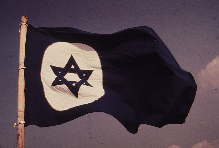 Civil Ensign of Israel